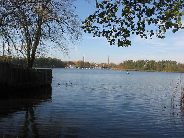 Lawn in Niederlehme at Dahme River, view to Wildau. The village Niederlehme is a part of the town Königs Wusterhausen in the district Dahme-Spreewald, state Brandenburg, Germany.